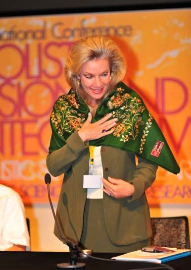 Joni Patry at Holistic Inner Science Conference in 2011